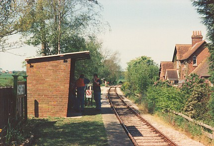 Ashey station, Isle of Wight Steam Railway. on the day it re-opened, having been closed by BR in February 1966